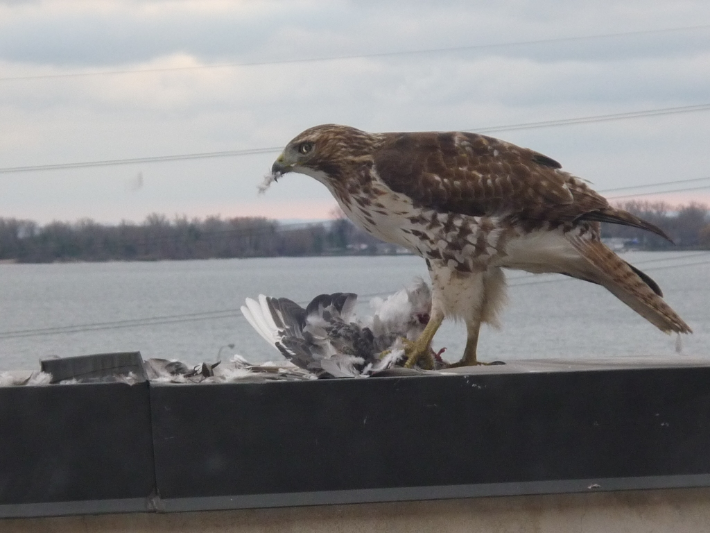 The top floor of the building where I live has a large patio, and some meeting rooms. Several of my neighbours were having a meeting when they saw a Red-tailed Hawk eating a pigeon, while perched on my building's parapet. My neighbour tells me the meal took longer than one might think -- long enough for her to go her apartment to get her camera. The Red-tailed Hawk was about 3 or 4 metres away when she took that photo. The wooded area across the bay is Ward's Island, part of the Toronto Islands.